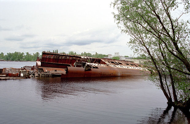 T. G. Shevchenko Project 785 (ex V. I. Lenin -1958) in Hidropark Kiev in 2004